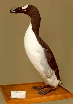 Great Auk (Alca impennis) specimen in Royal Belgian Institute of Natural Sciences. This specimen (bird no. 3, the Brussels Auk) is one of the two last great auks that were killed in Iceland on July 3, 1844. (Fuller, 1999, confirmed in 2017)